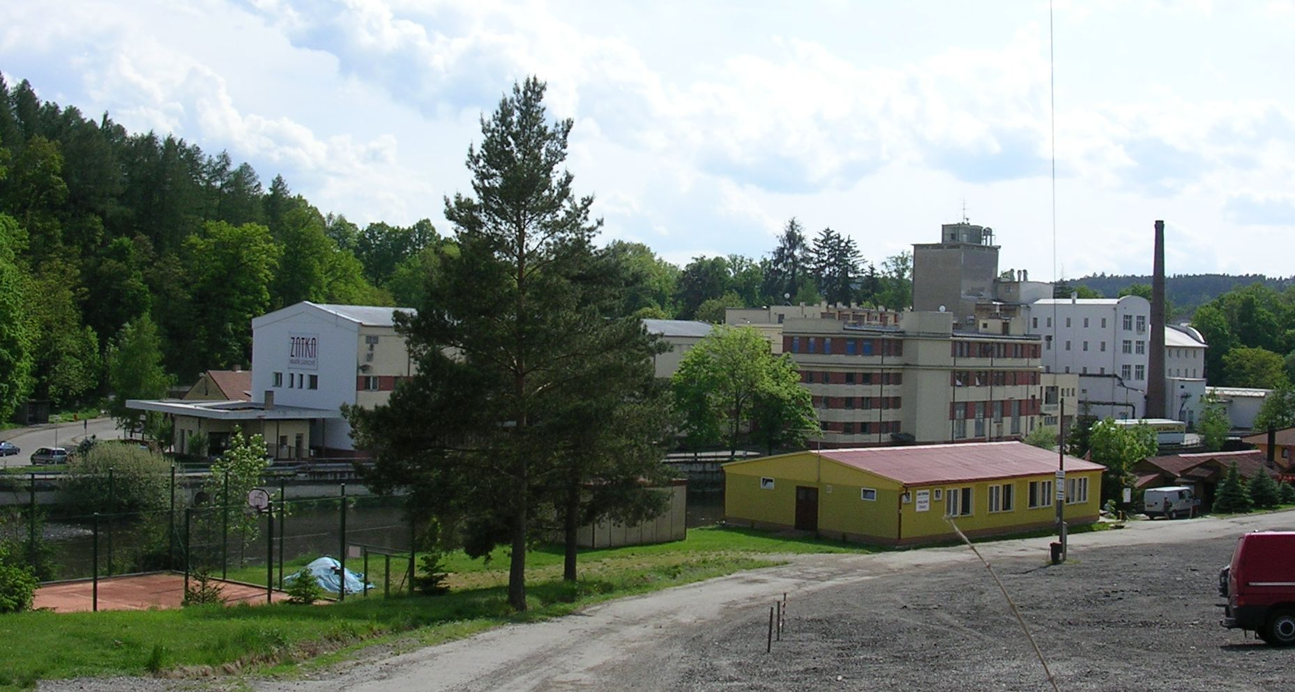 Boršov nad Vltavou, České Budějovice District, South Bohemian Region, the Czech Republic.